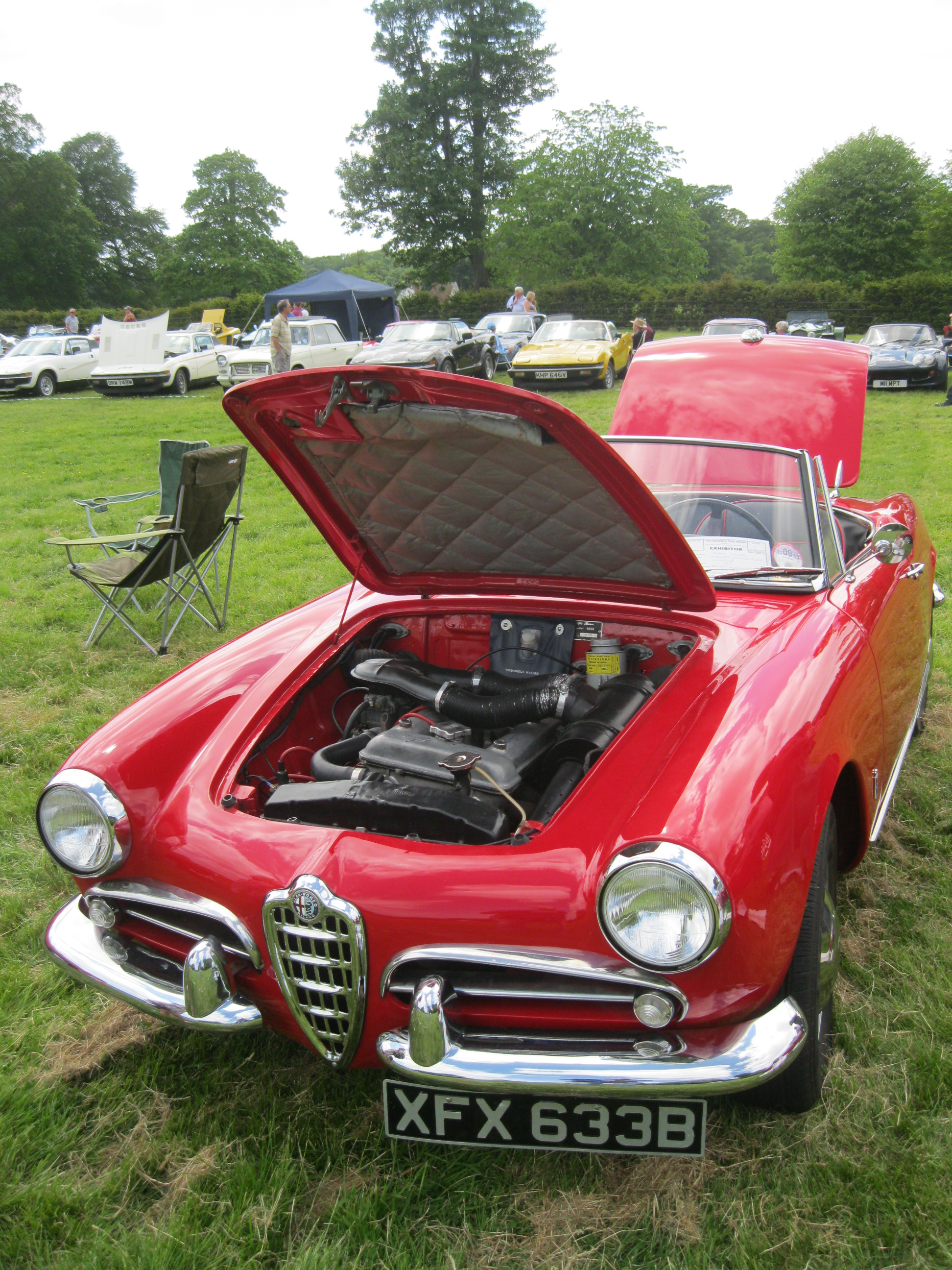 Pretty Alfa Spider spotted at the Lulworth Castle Classic Car Show on 9th June 2013